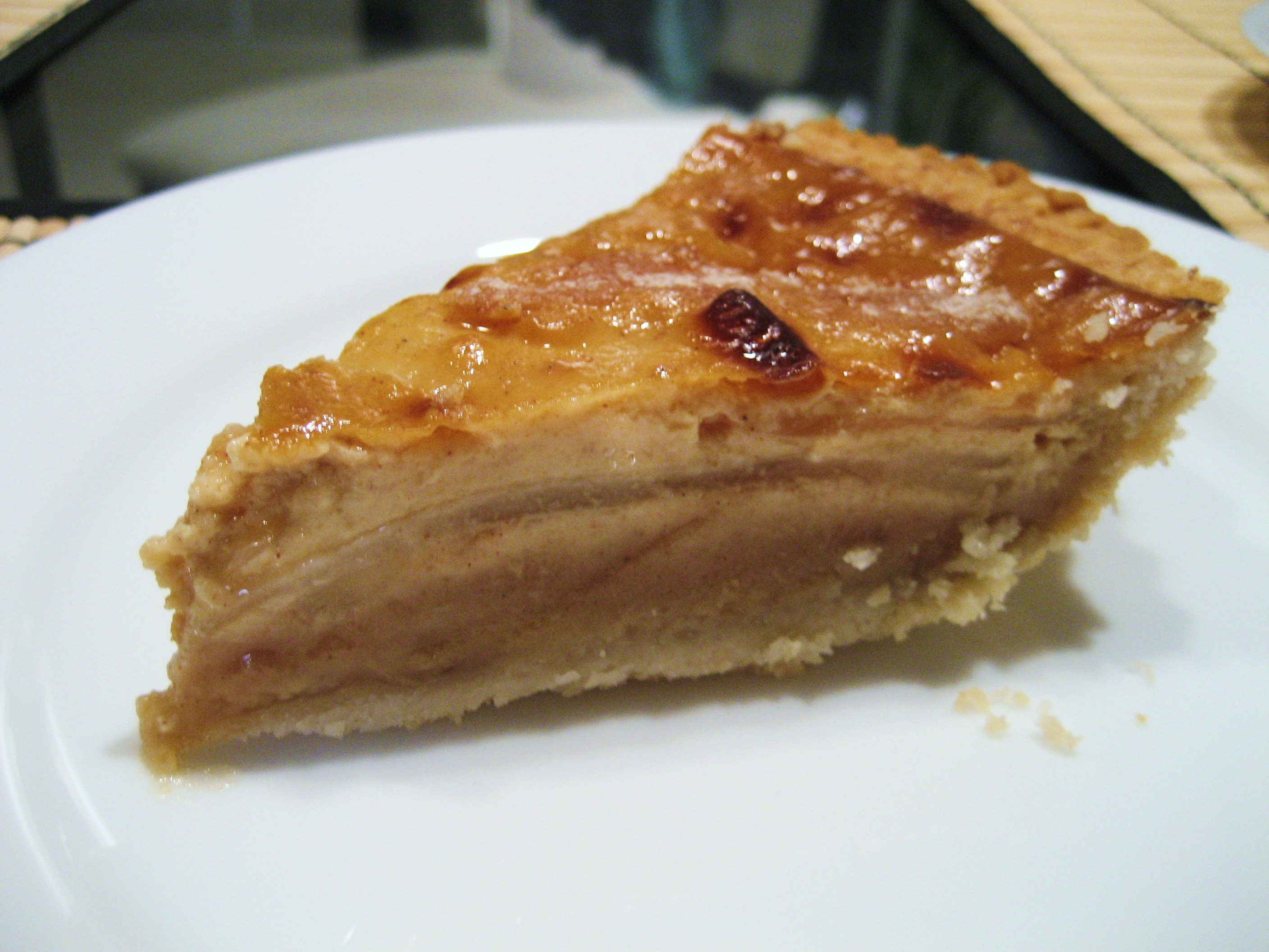 A slice of Rustic Pear Custard Pie.